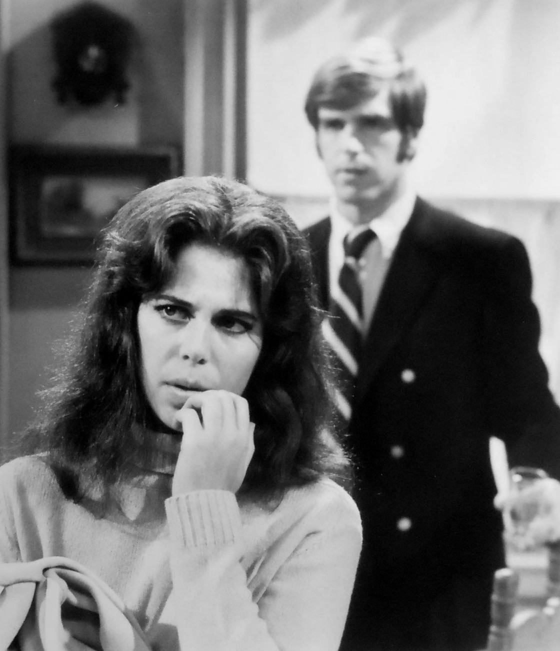 Scene from the daytime drama One Life to Live. Pictured are Larry Wolek (Michael Storm) and Cathy Craig (Amy Levitt).